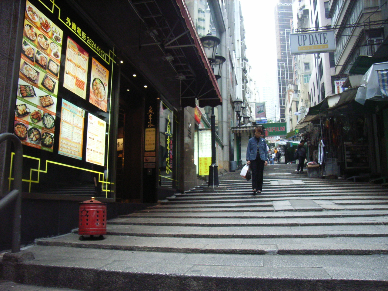 Pottinger Street is a stone step street in Hong Kong 砵甸乍街